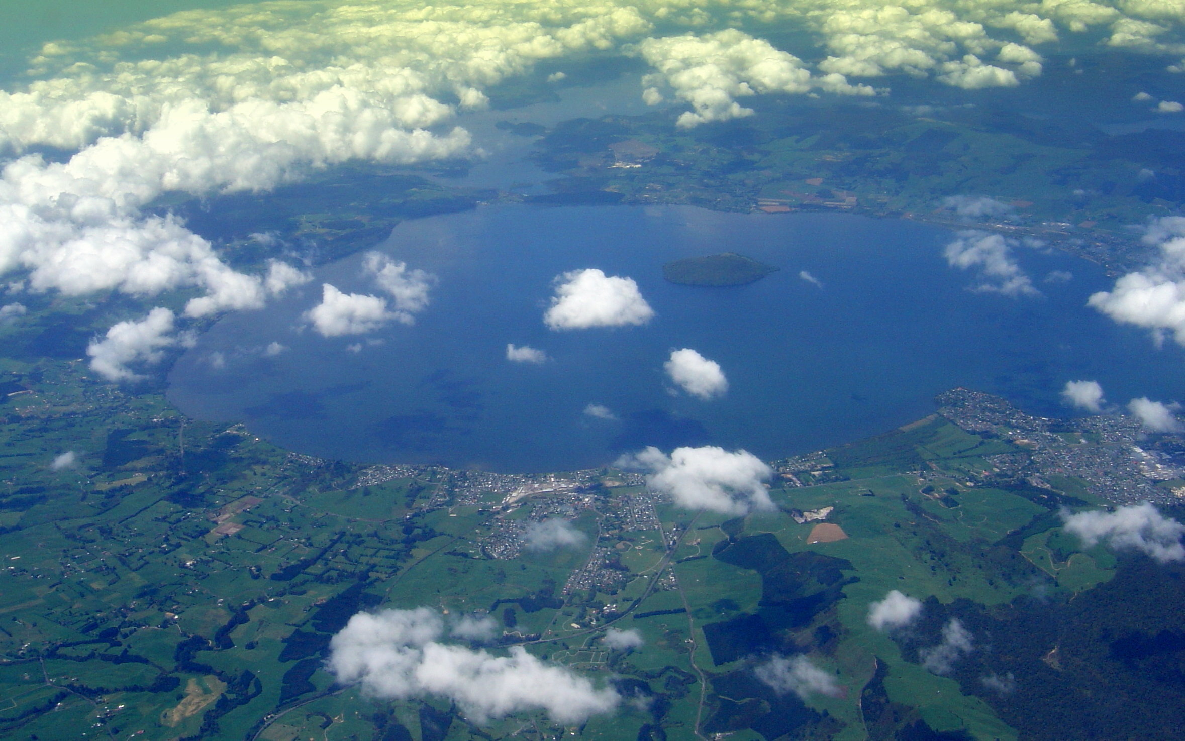 Lake Rotorua viewed from a commercial flight at about 20,000 feet (6,100 metres); Mokoia Island visible in the lake